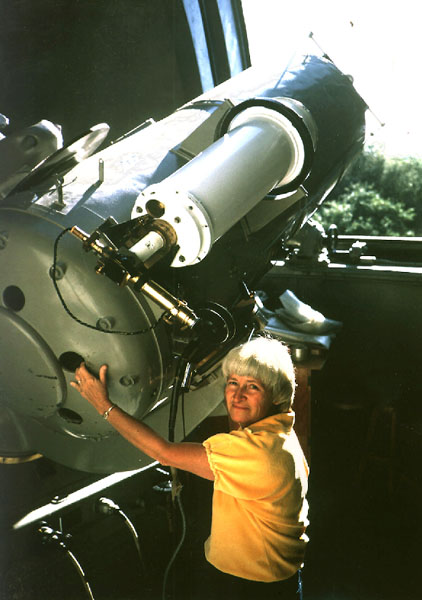 Carolyn Shoemaker, Planetary Astronomer and Most Successful 'Comet Hunter' To Date, at the 18 inch Schmidt at Palomar Observatory. Photo taken by her husband, Gene Shoemaker.